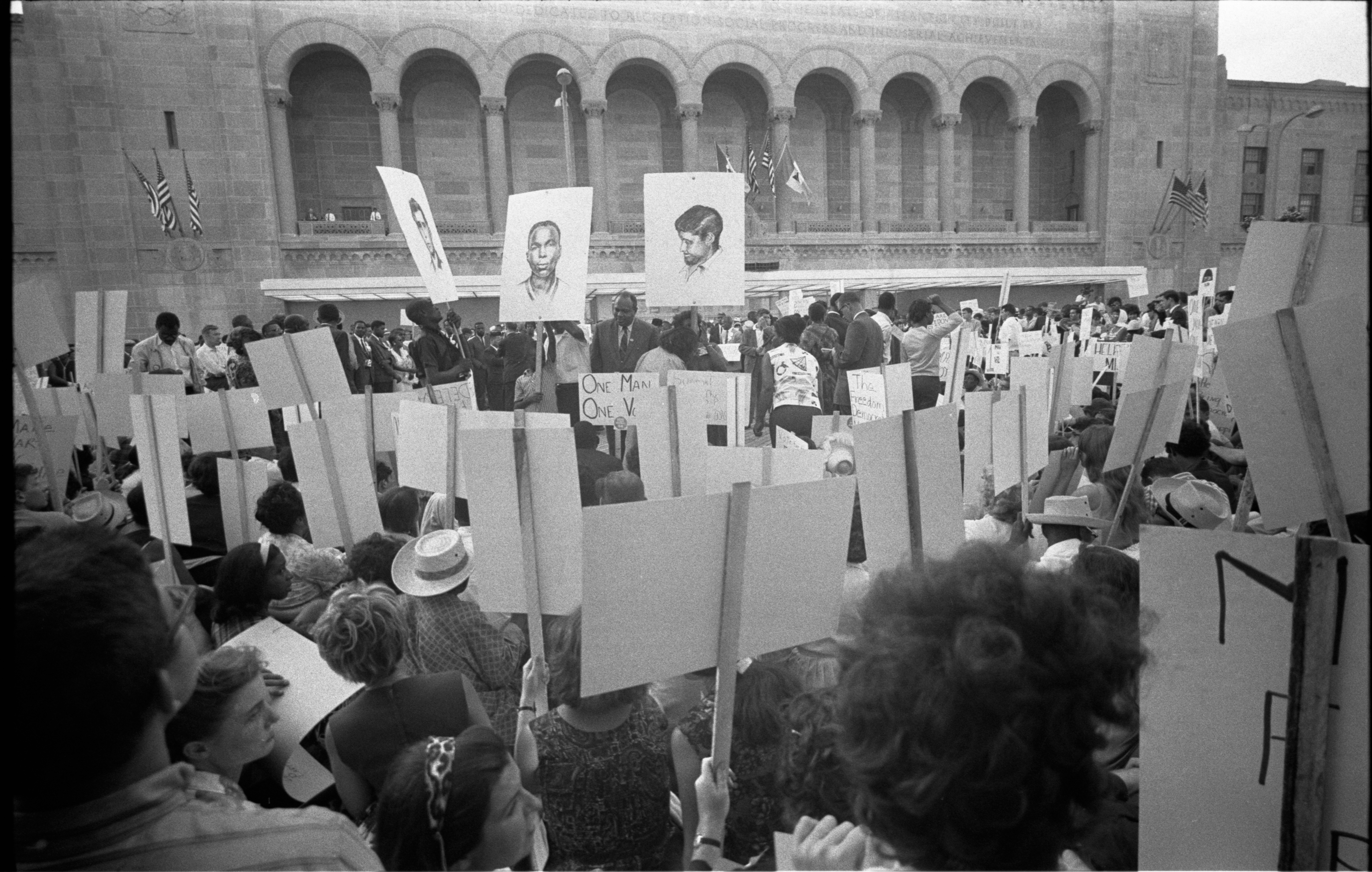 [African American and white Mississippi Freedom Democratic Party supporters demonstrating outside the 1964 Democratic National Convention, Atlantic City, New Jersey; some hold signs with portraits of slain civil rights workers James Earl Chaney, Andrew Goodman, and Michael Schwerner] / WKL.